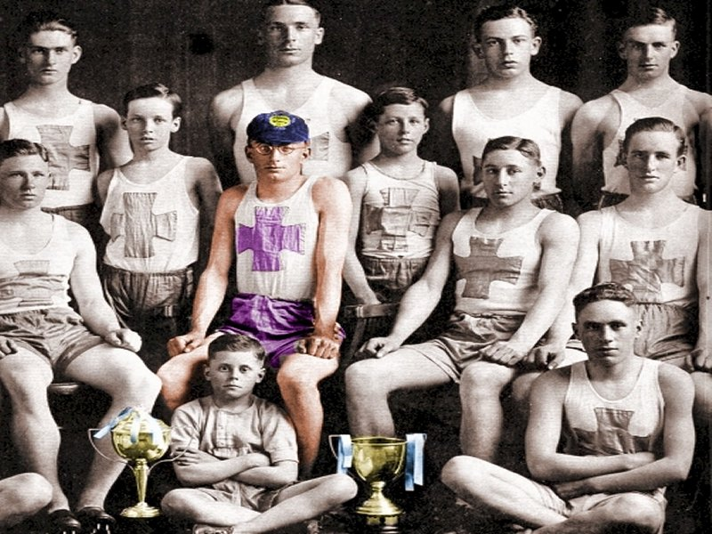 The 1931 College Athletics Squad Champions, Batt Curran centre